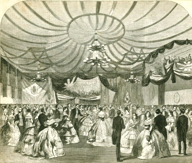 "The ball at Tammany Hall, New York, on January 9, 1860, in commemoration of the anniversary of the battle of New Orleans"